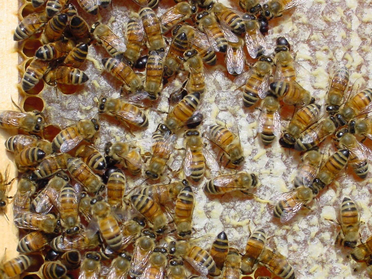 Aethina tumida Host: honey bee Apis mellifera Linnaeus Common Name: small hive beetle Photographer: James D. Ellis, University of Florida, United States Descriptor: Adult(s) Description: Adult small hive beetle on frame of honey. Image taken in: Farmington, Georgia, United States